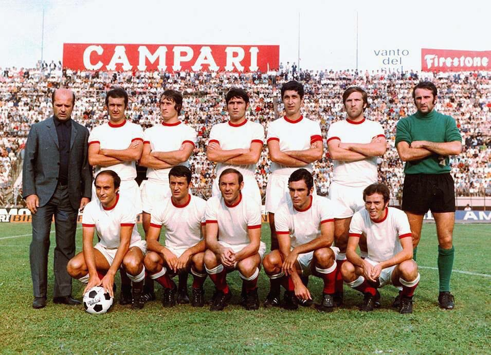 A line-up of A.S. Bari in the 1970–71 season. From left to right, standing: L. Toneatto (coach), G. Sega, C. Marmo, V. Spimi, M. Muccini (captain), M. Fara, G. Spalazzi; crouched: U. Depetrini, M. Diomedi, G. B. Pienti, A. Tonoli, P. Loseto.